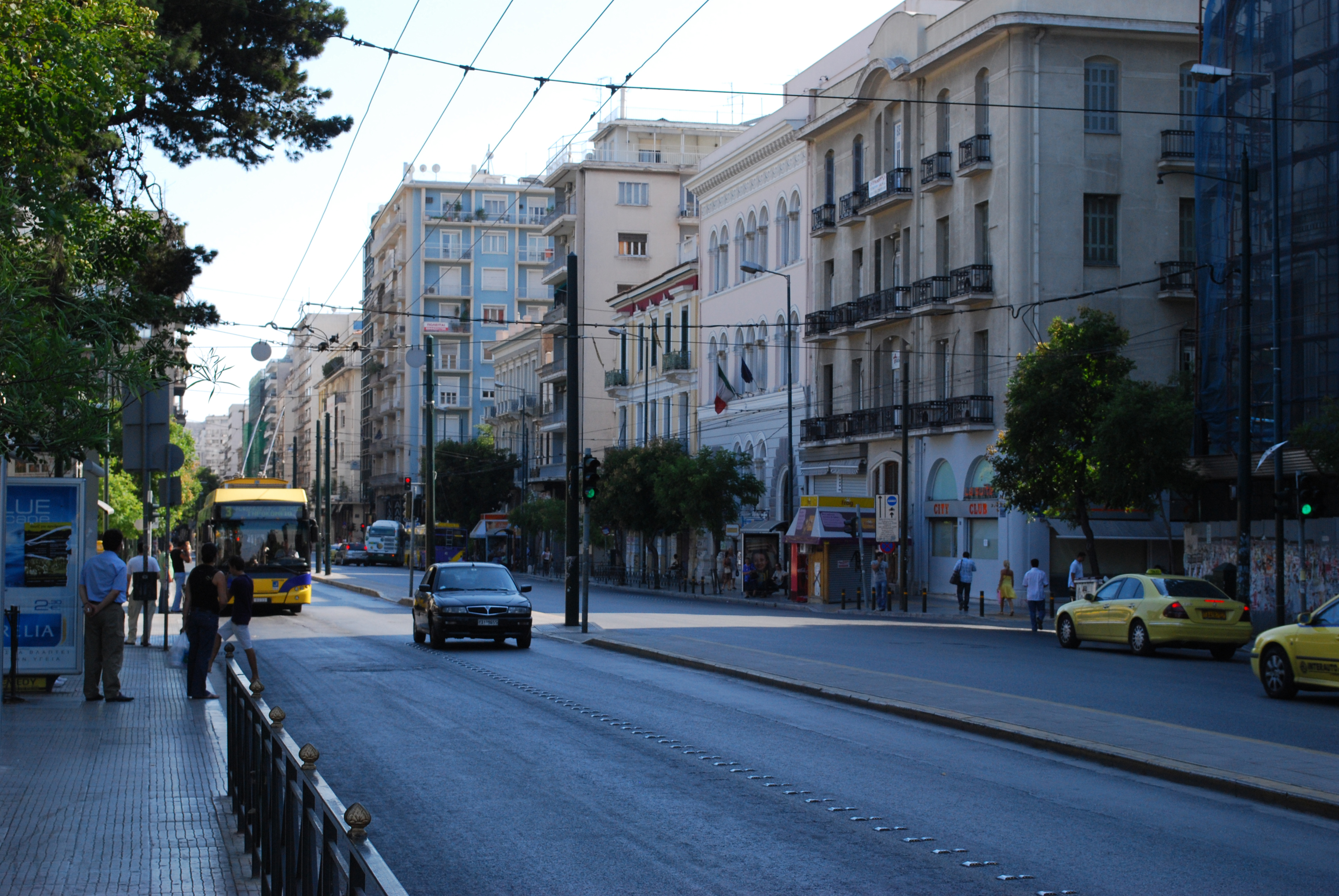 Patission Street.